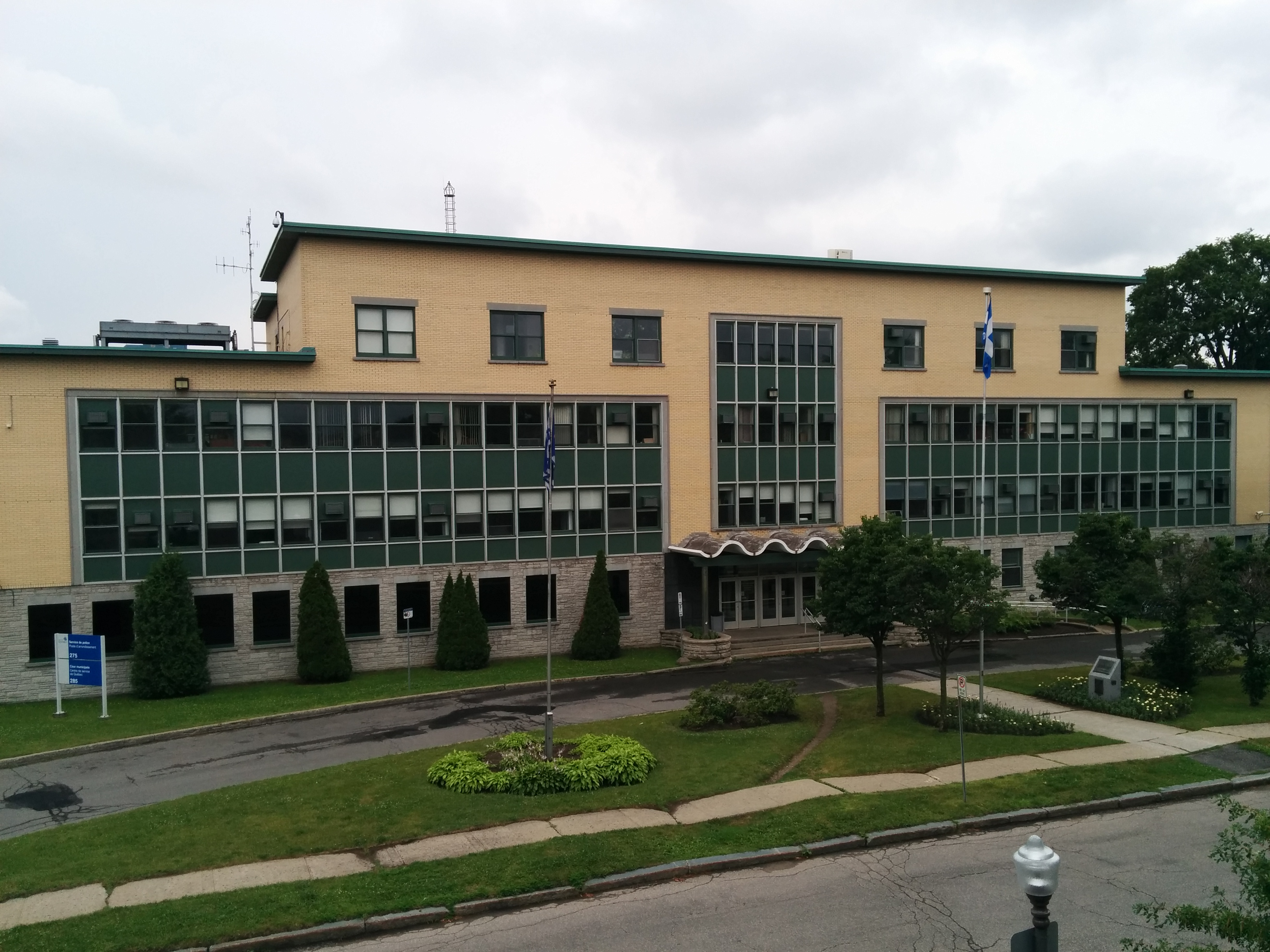 Quebec city's central police station, in Saint-Roch.